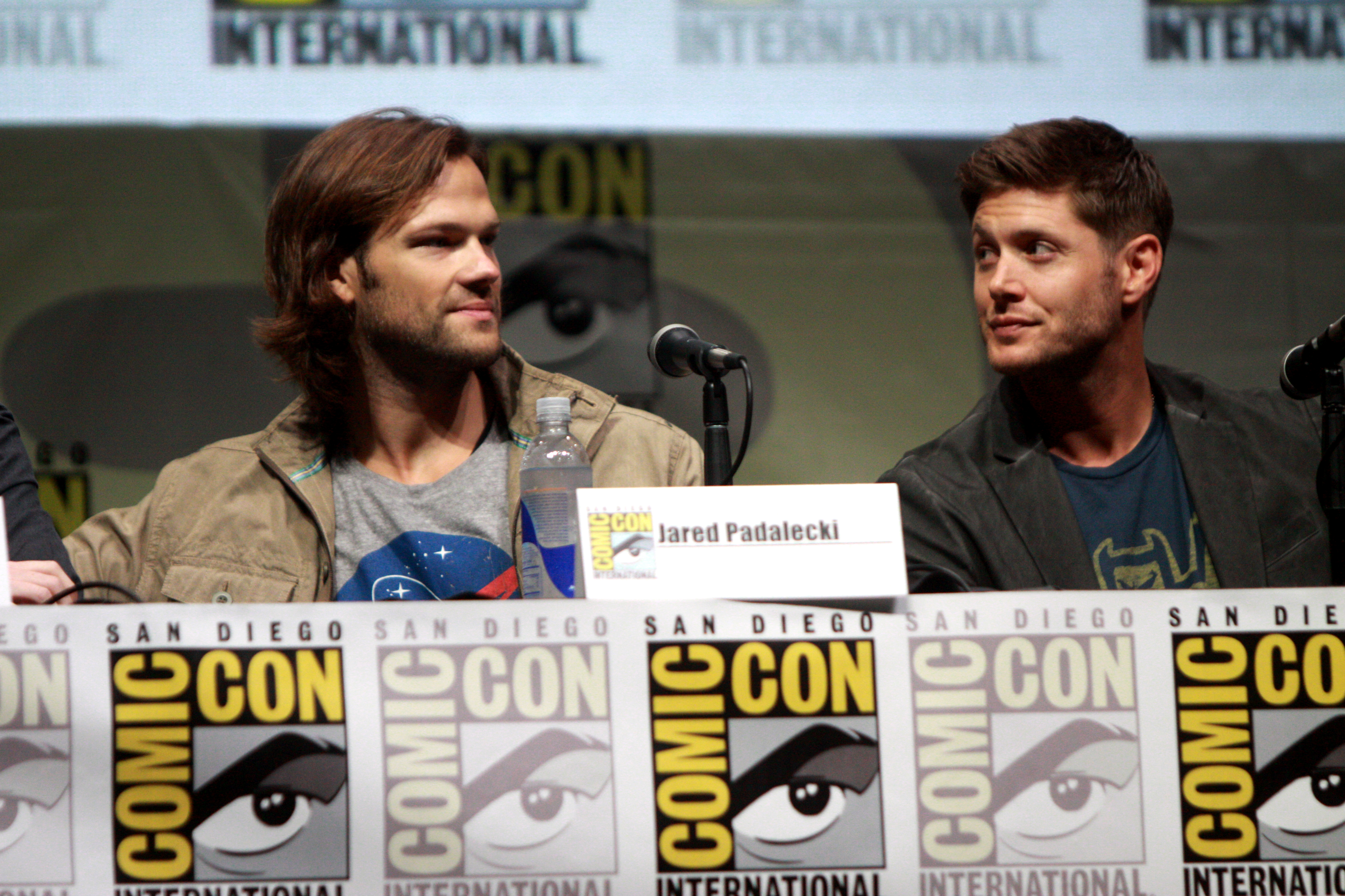 Jared Padalecki and Jensen Ackles speaking at the 2013 San Diego Comic Con International, for "Supernatural", at the San Diego Convention Center in San Diego, California.